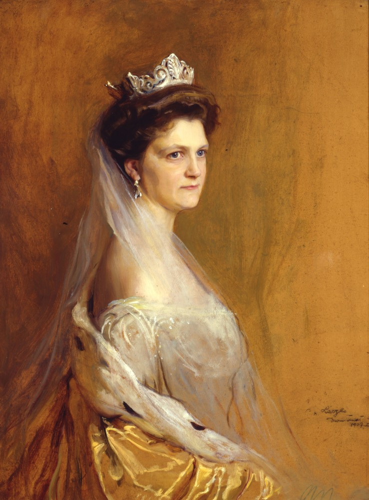 Eleonore van Solms-Hohensolms-Lich (1871-1937), Grand Duchess of Hesse and by Rhine